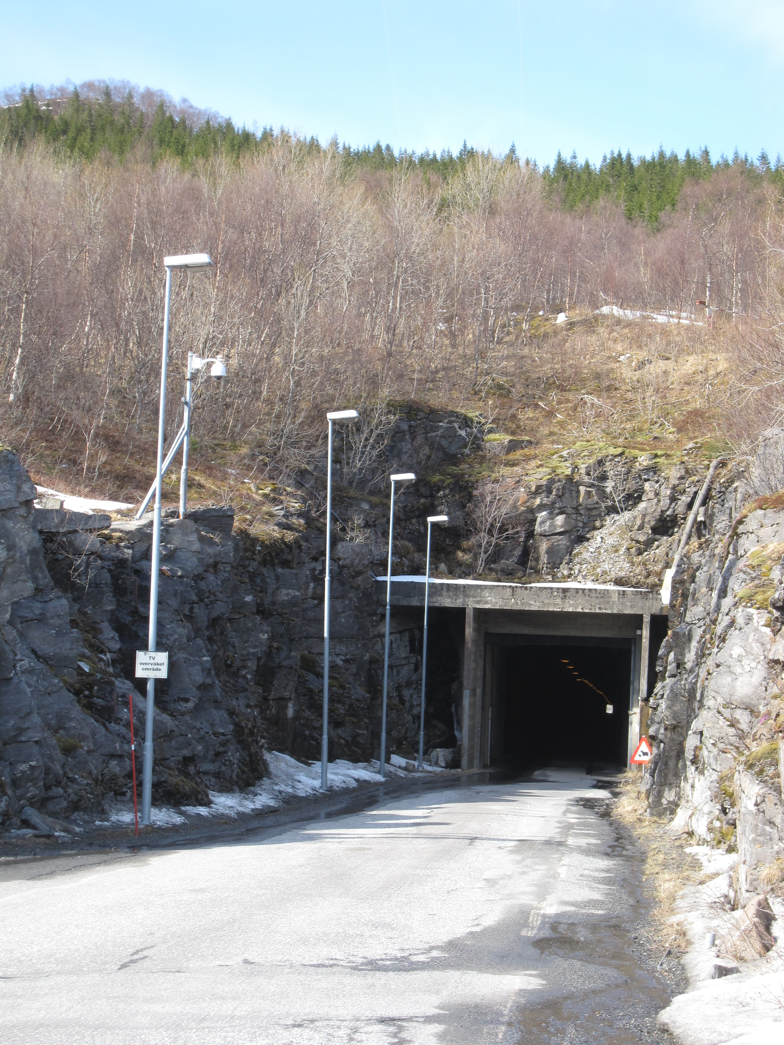 Novika tunnel entrance.